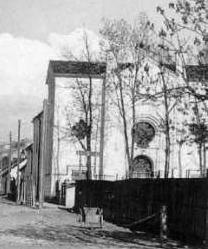 Synagogue in Andrychów